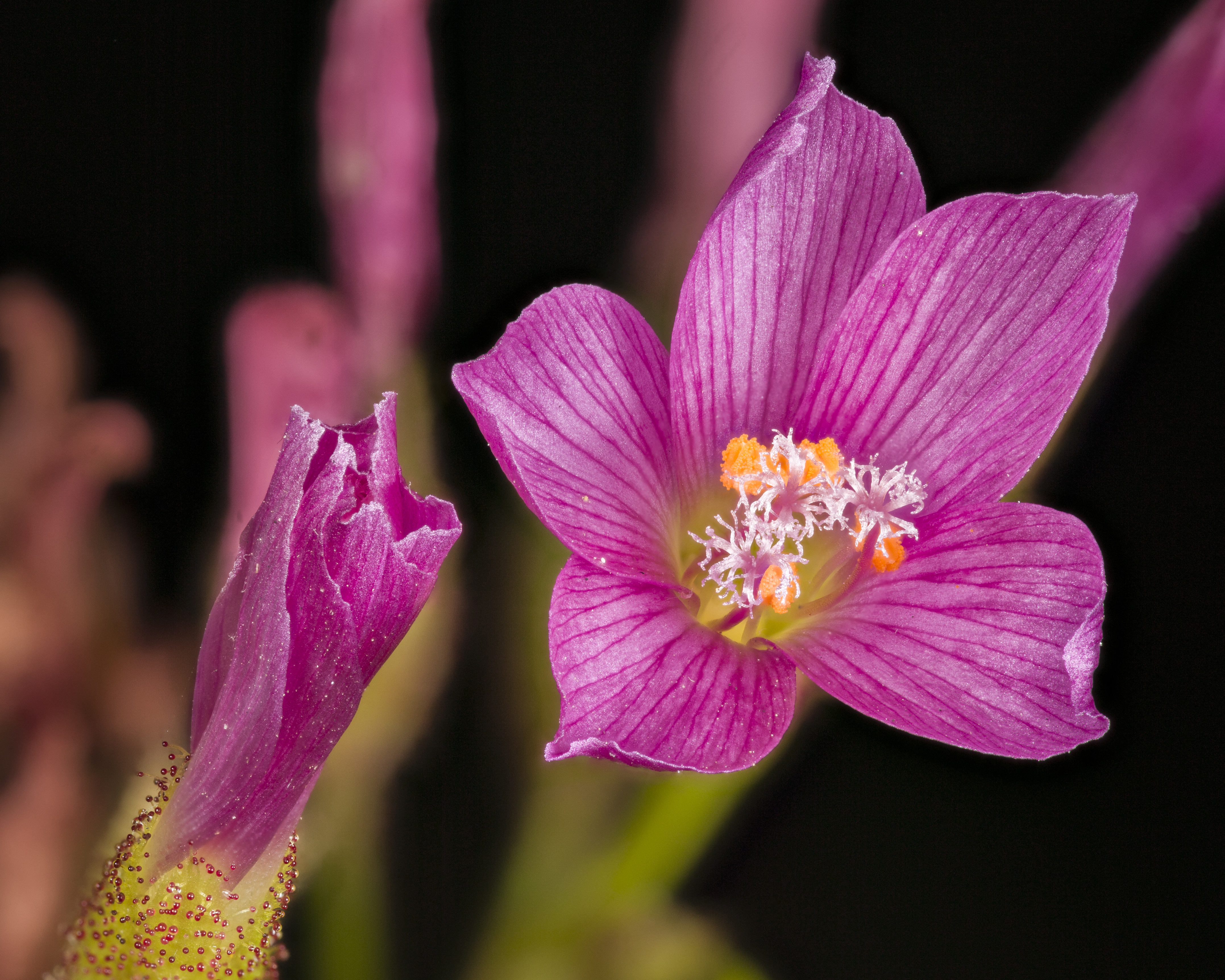 This is an open and closed pink Drosera regia flower.